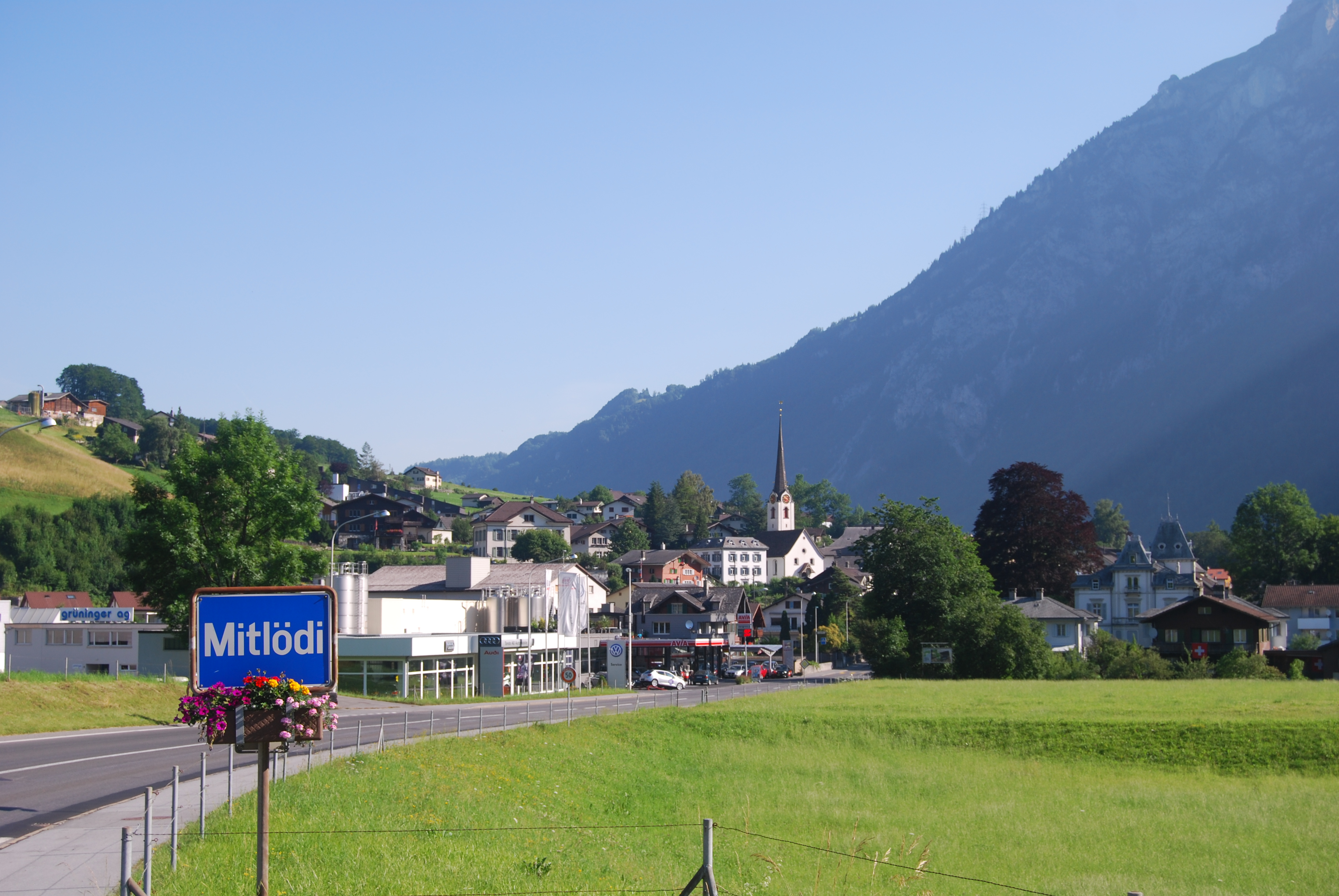 Village entry of Mitlödi, canton of Glarus, Switzerland